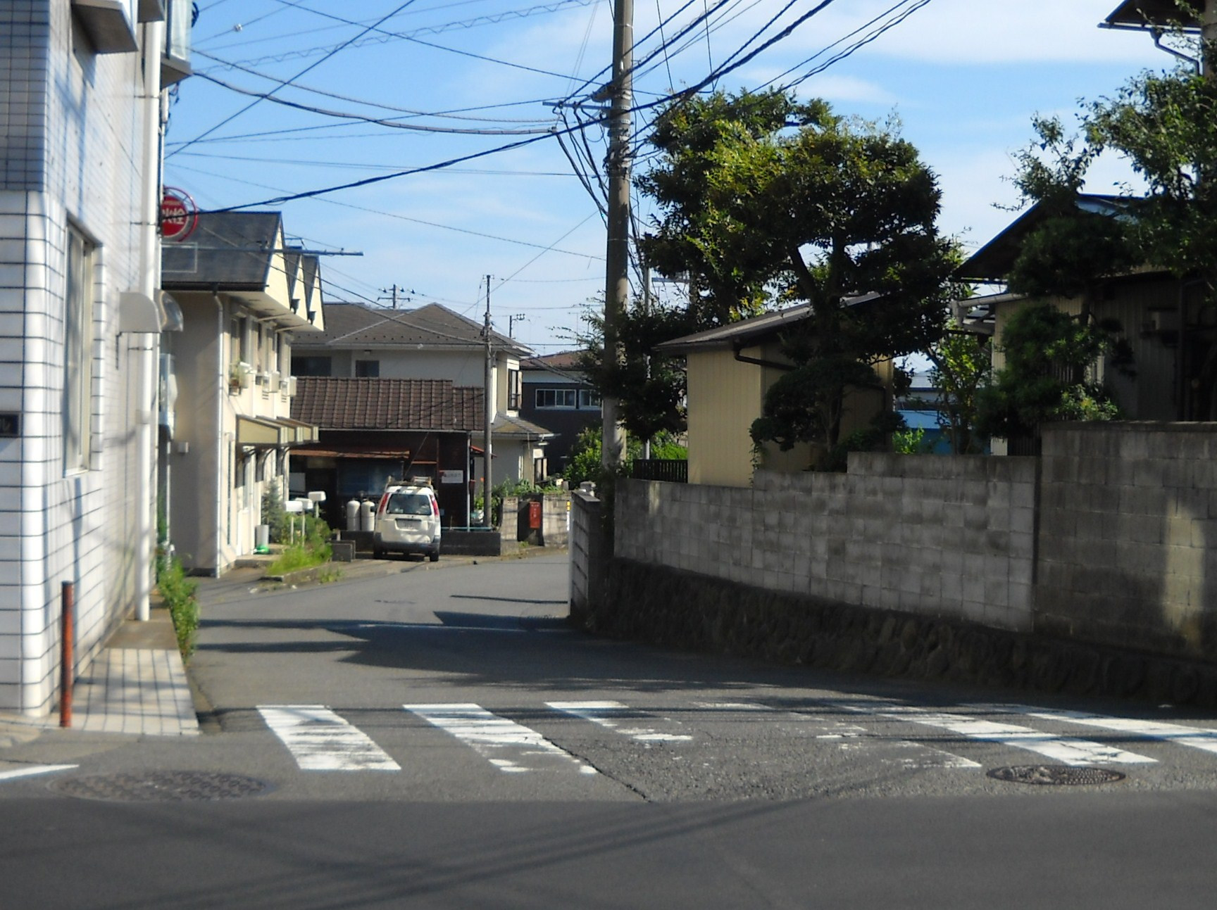 Kanagawa prefectural road route 307 end point, Fujisawa city, Kanagawa pref., Japan